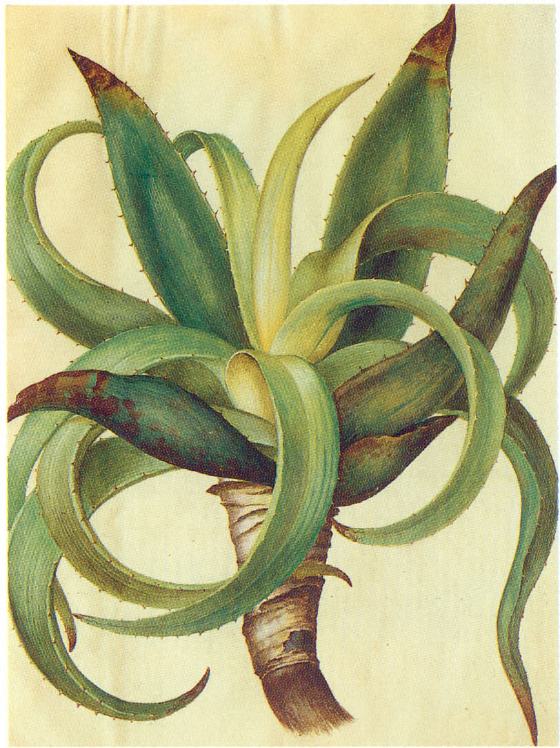 Aloe vera (L.) Burm. F. (Aloe vulgaris Willd.), gouache on vellum, in: Gottorfer Codex